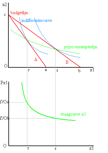 derivation individual demand curve from price-consumption curve